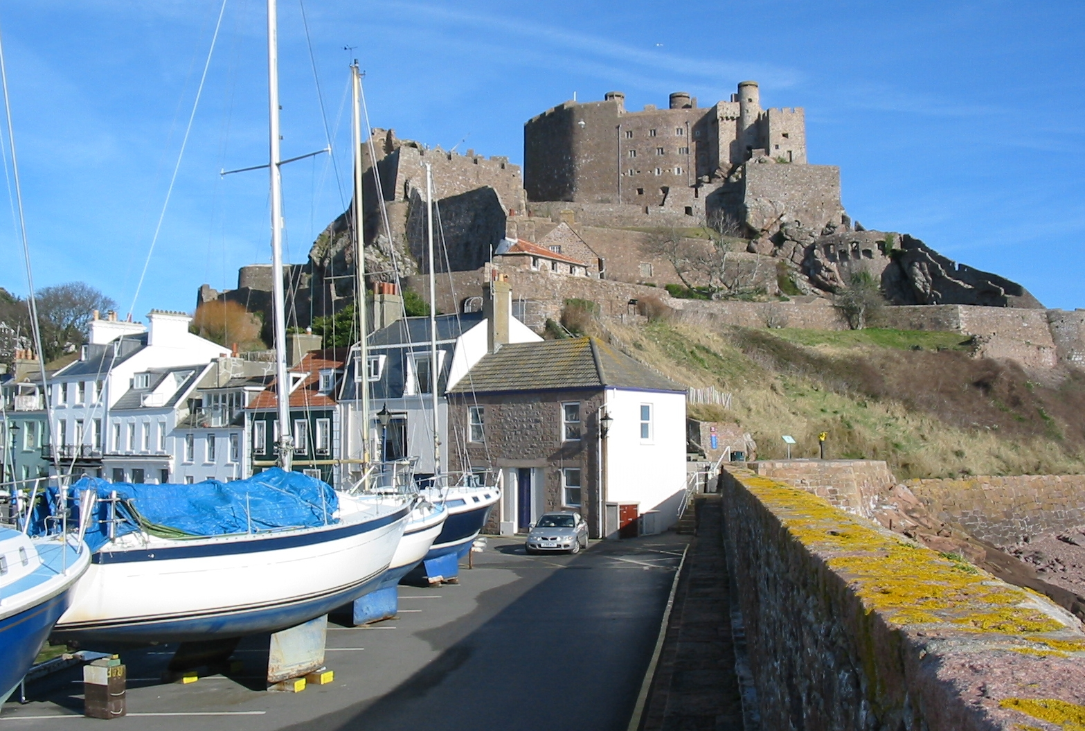 Jersey Nrf: Jèrri